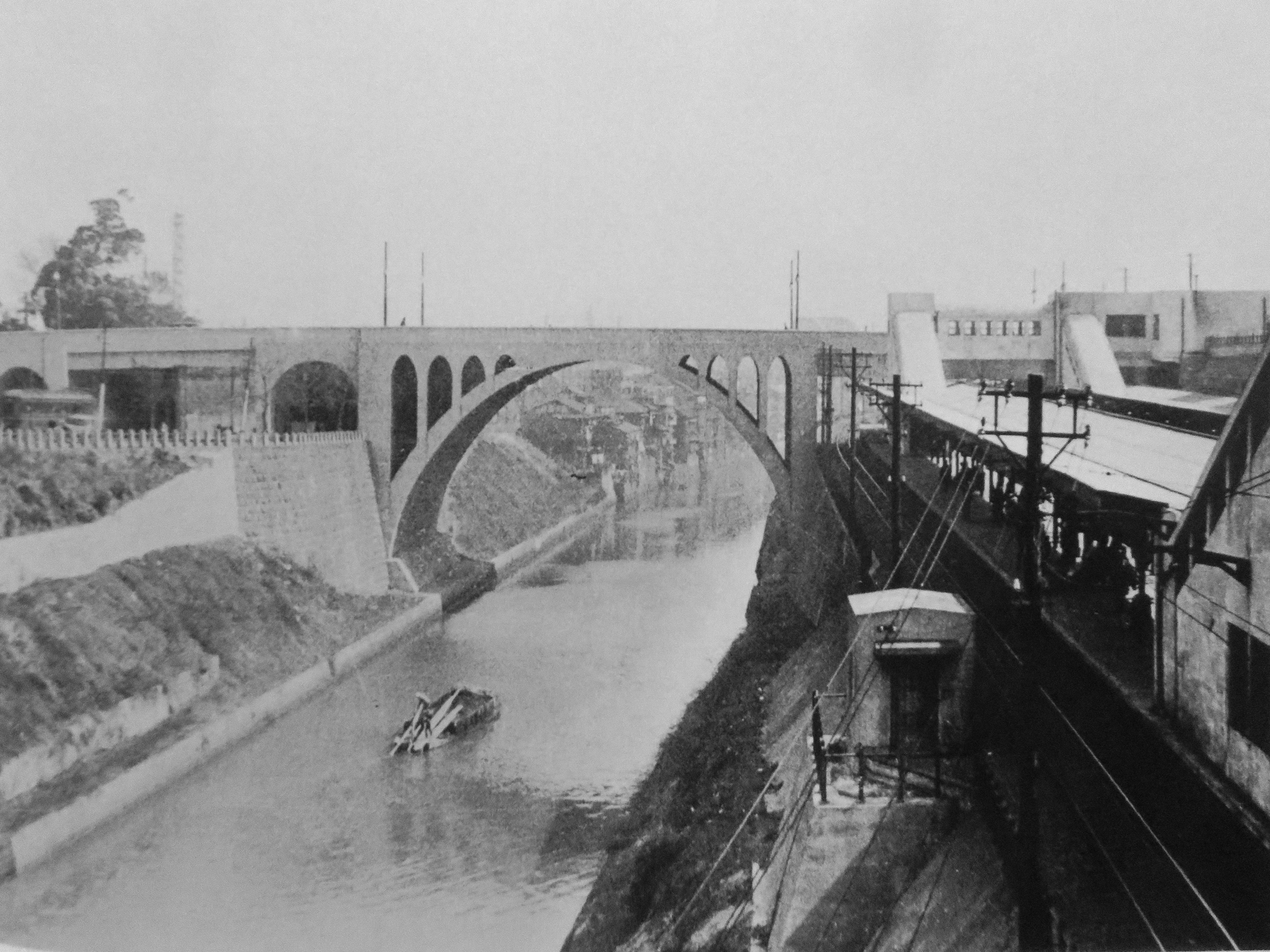 Ochanomizu Station, 1934